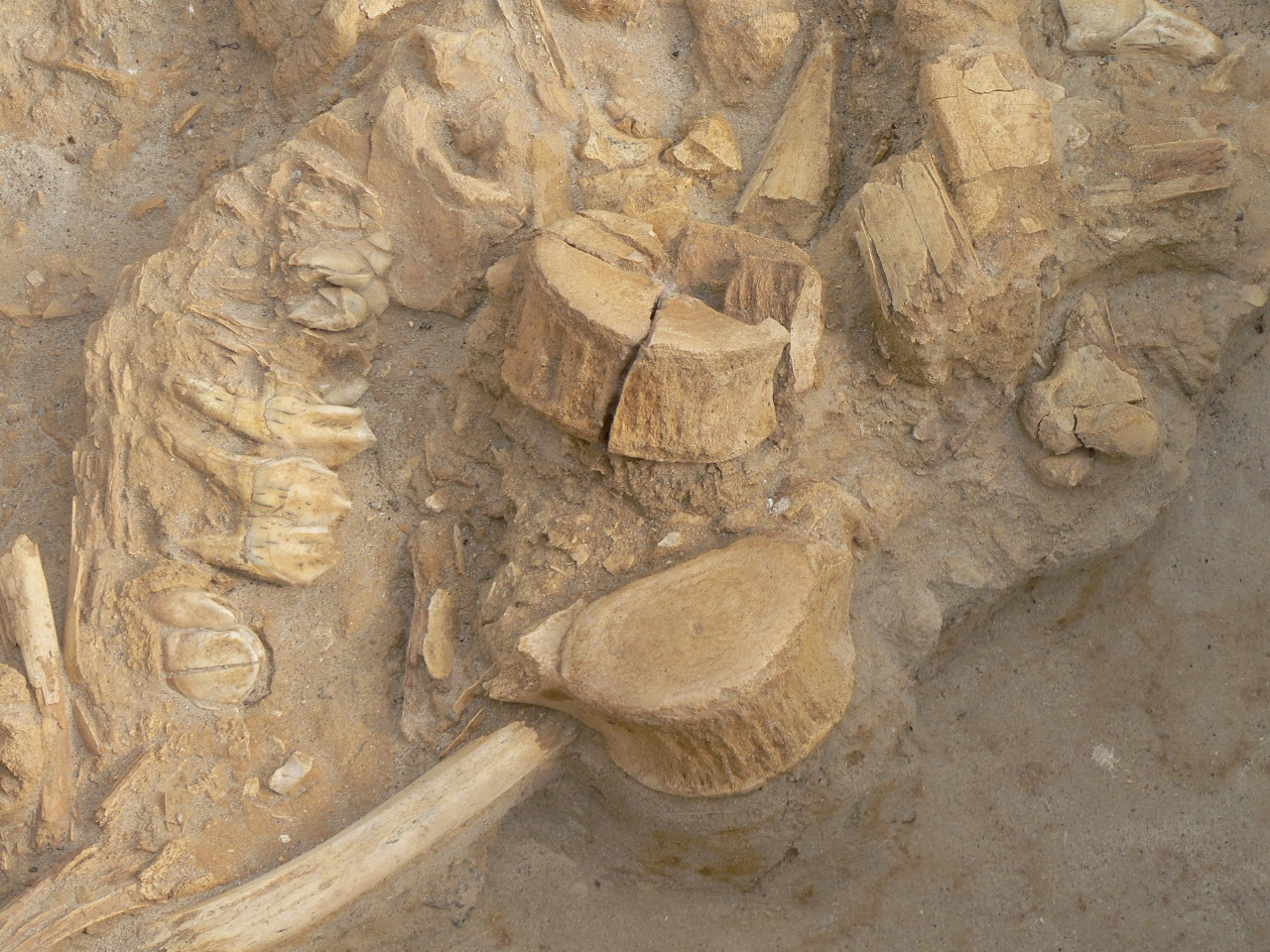 This media shows a South African Protected Site with SAHRA file reference 9/2/042/0014.